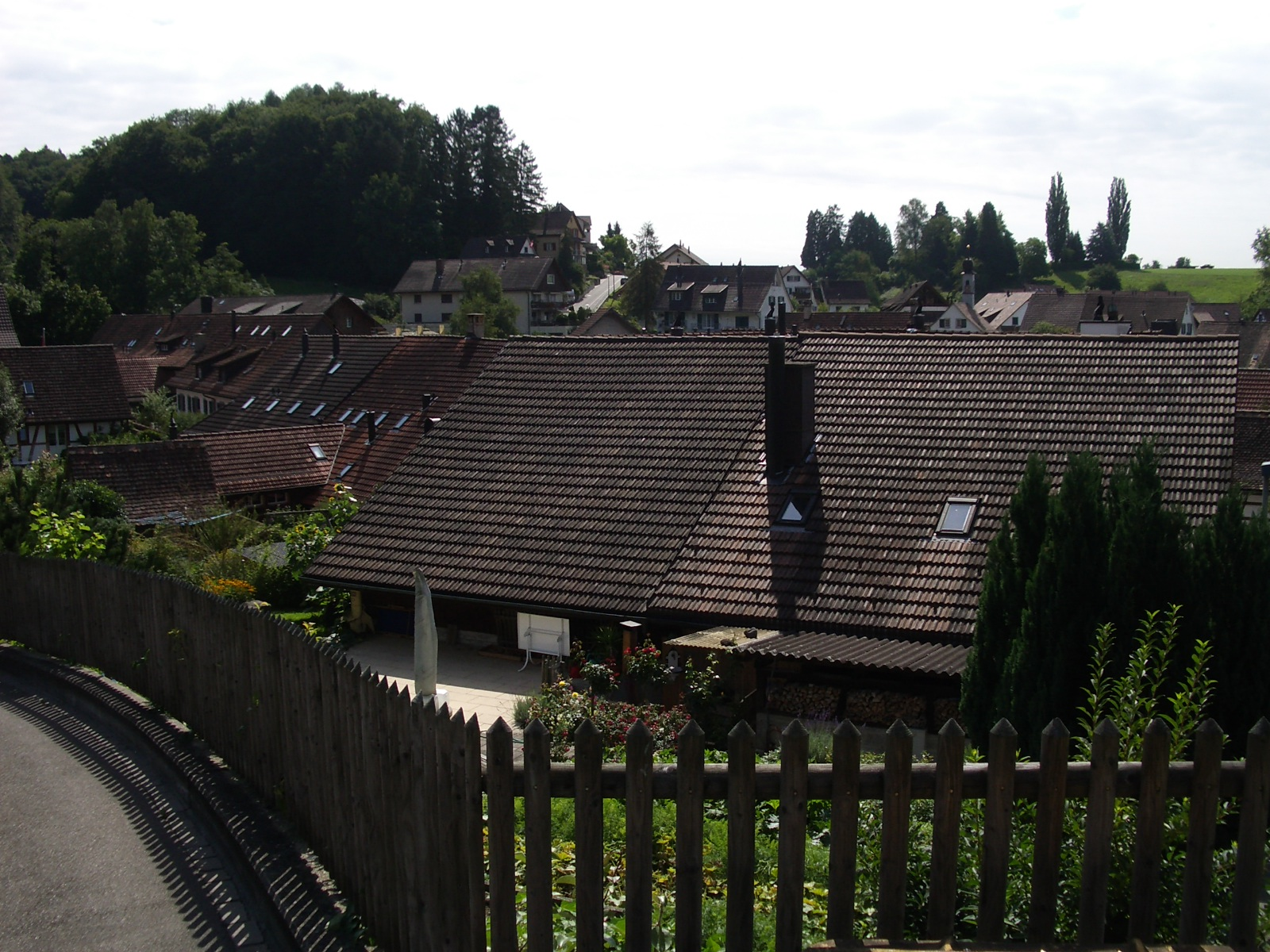 Boppelsen ZH, Switzerland